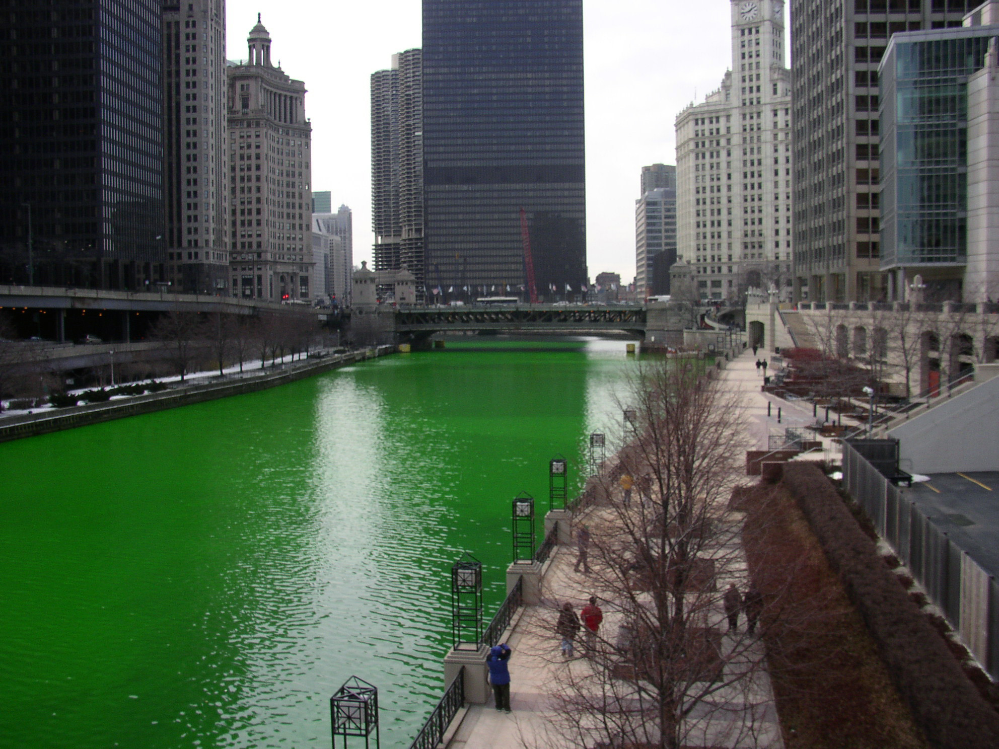 This is a photograph of the Chicago River dyed green for the St. Patrick's Day celebration. On the left is Wacker Drive, where it changes from three to two levels. Crossing the river is Michigan Avenue's double-decker bridge. This picture was taken from the Columbus Drive bridge. The view faces west.